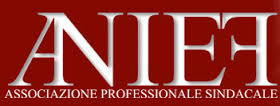 ANIEF logo